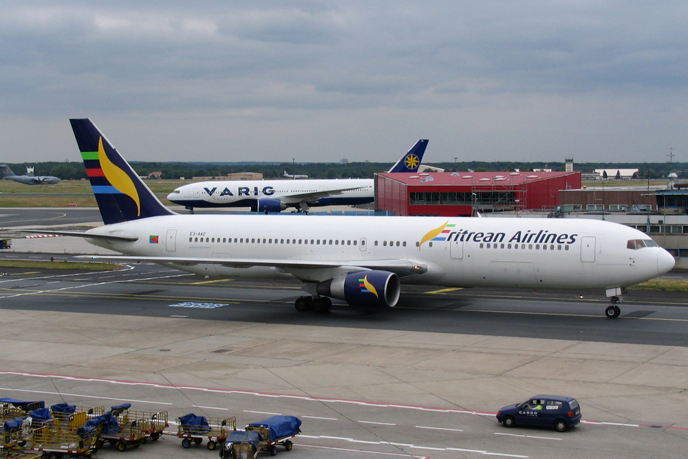 Eritrean Airlines with Boeing 767-300 in Frankfurt.